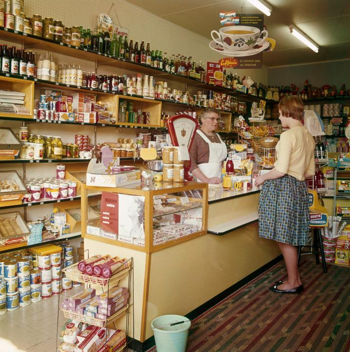 Grocery. The Netherlands, Boskoop, 1961. Hebt u meer informatie over deze foto, laat het ons weten. Laat een reactie achter (als u ingelogd bent bij Flickr) of stuur een mailtje naar: Please help us gain more knowledge on the content of our collection by simply adding a comment with information. If you do not wish to log in, you can write an e-mail to: Meer foto’s van Spaarnestad Photo zijn te vinden op onze beeldbank